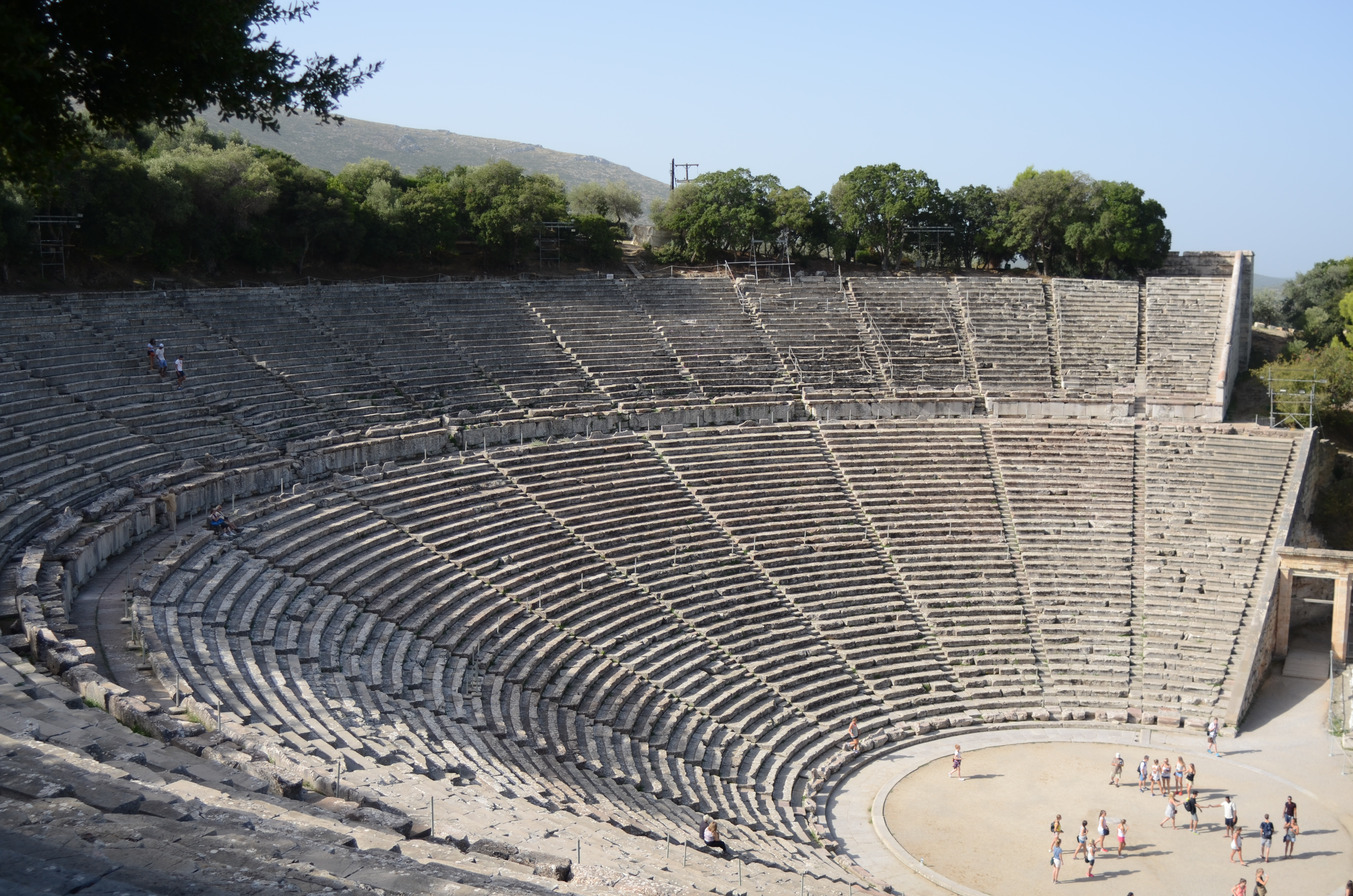 The amphitheatre at Epidavros.